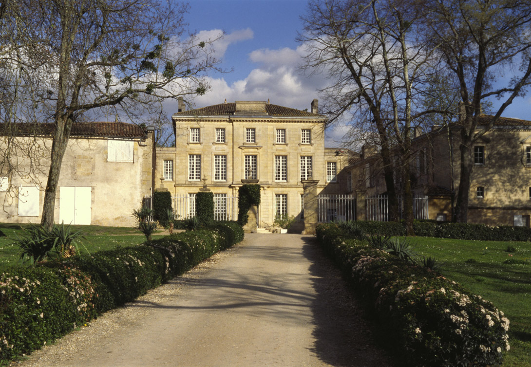 Chateau Figeac in Saint-Emilion, France